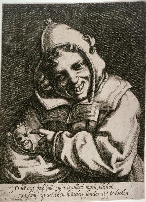 A fool with a smaller fool in his sleeve